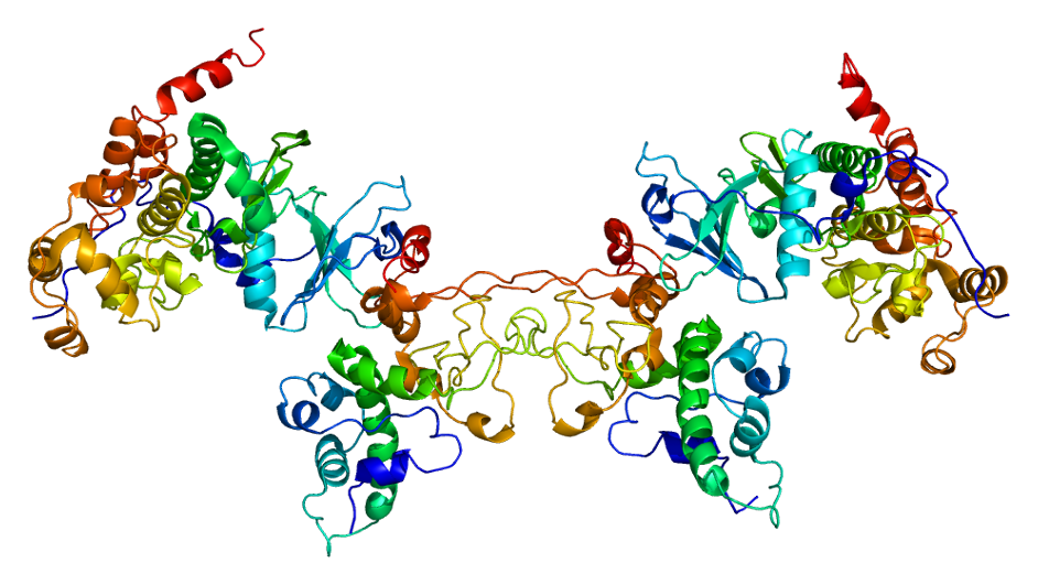 Structure of the CSNK2A1 protein. Based on PyMOL rendering of PDB 1jwh.